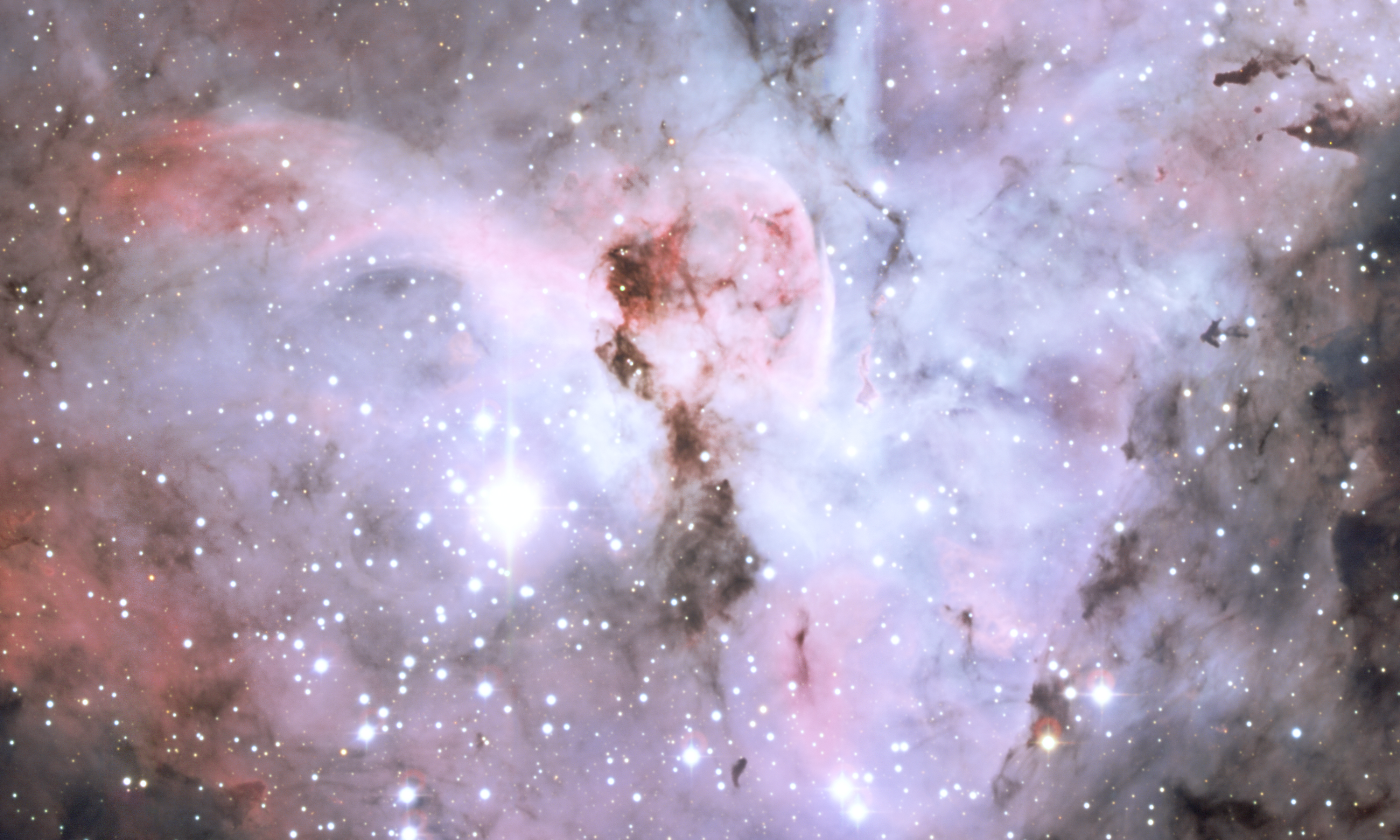 Colour-composite image of the Keyhole, a dark nebula within the Carina Nebula.